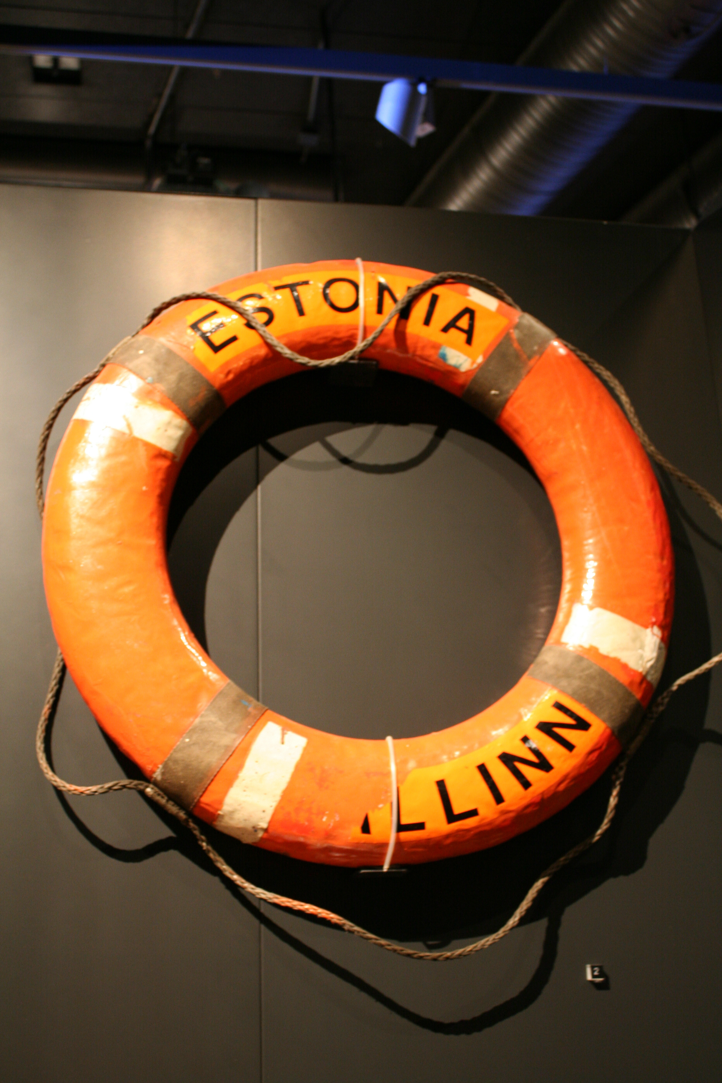 A lifering from MS Estonia, sunk 1994, on display at the Finnish Maritime Museum in Maritime Center Vellamo in Kotka, Finland.